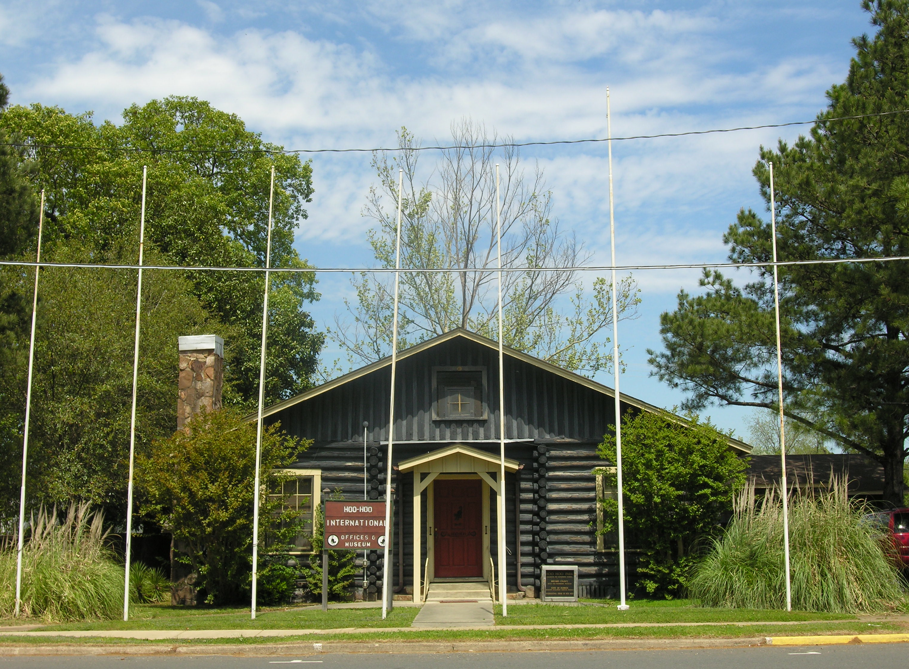 The Hoo Hoo International offices & museum on Main Street in Gurdon, Clark County, Arkansas.